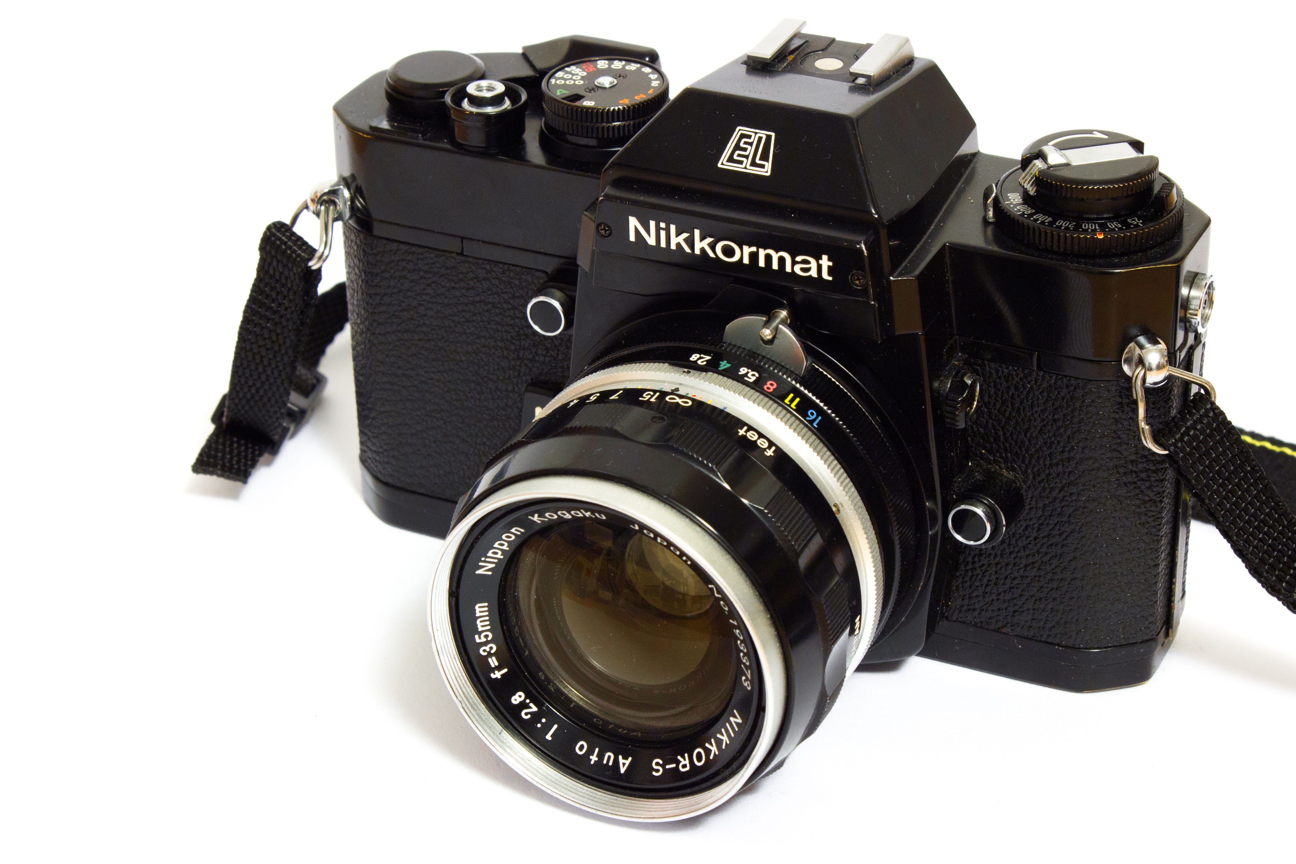 Home studio shot of an japanese Nikkormal EL analog SLR camera with a 35mm f2.8 lens.